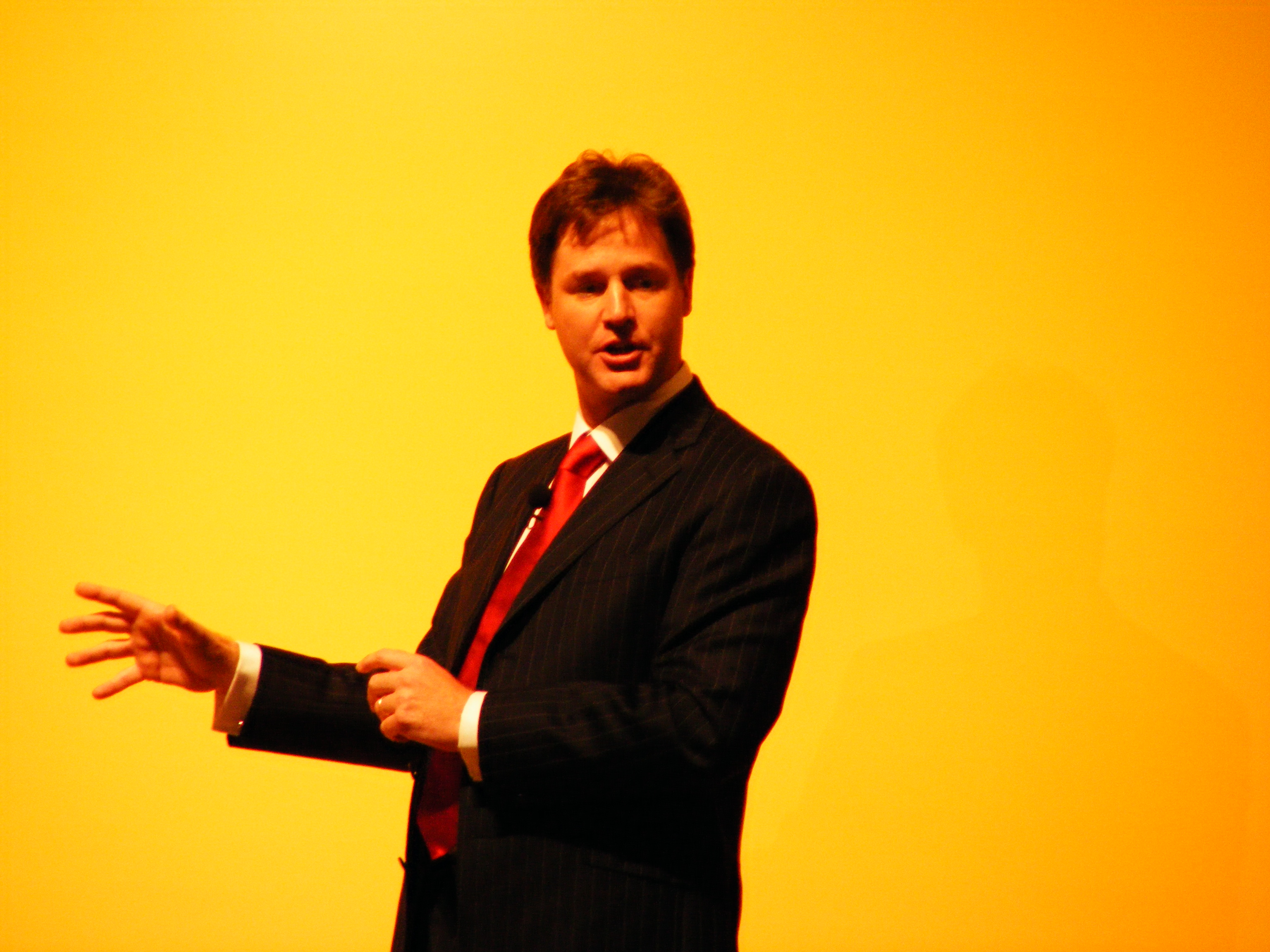 Nick Clegg addresses the Conference Rally in Bournemouth.